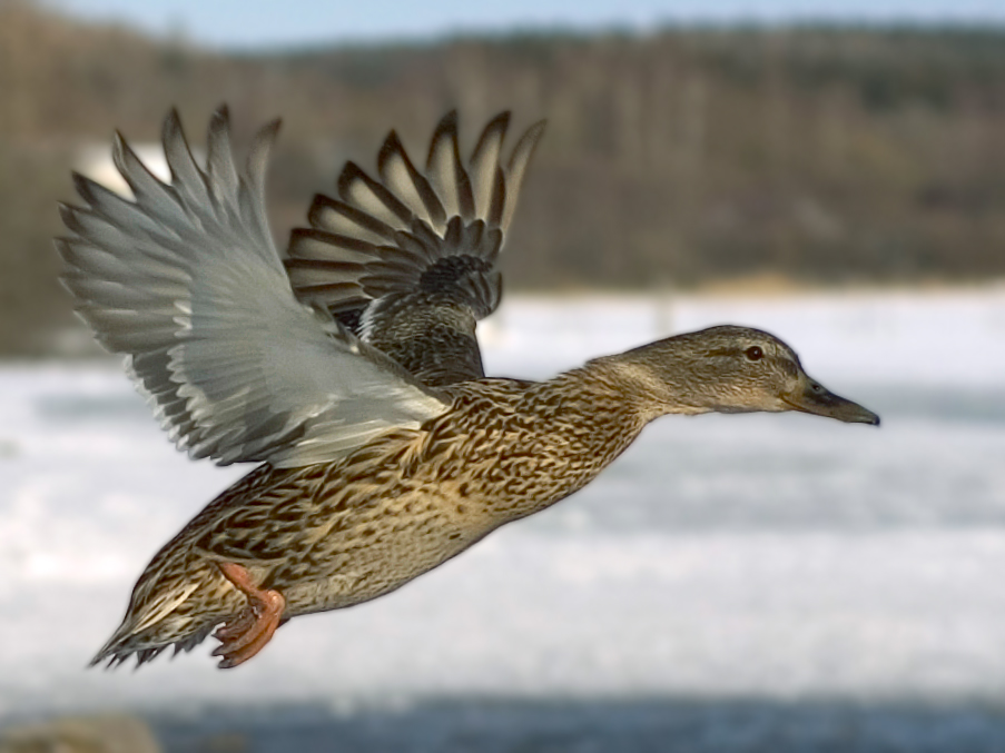 Flying Mallard duck - female 8 50 mm